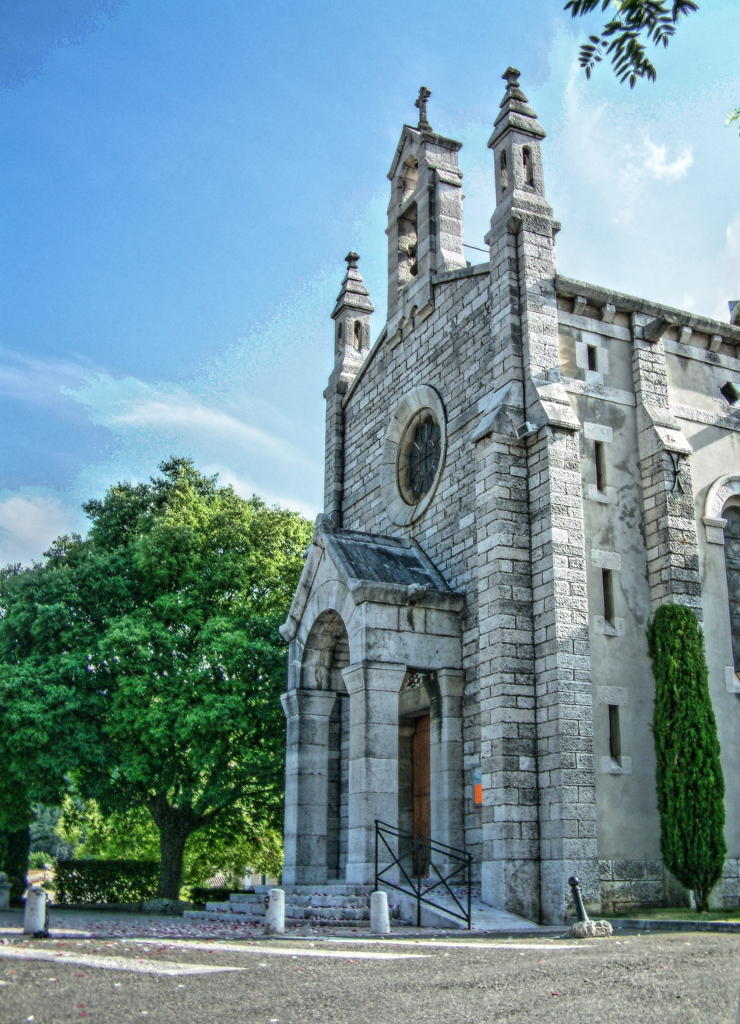 St Roseline church in Roquefort la Bédoule (Bouches du Rhône - France)